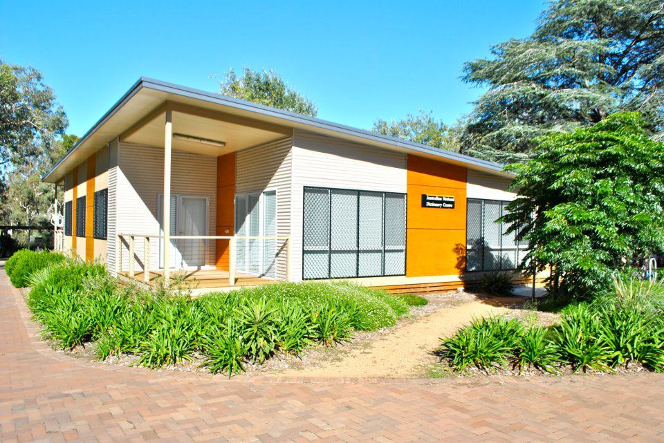 Photo of the Australian National Dictionary Centre at ANU